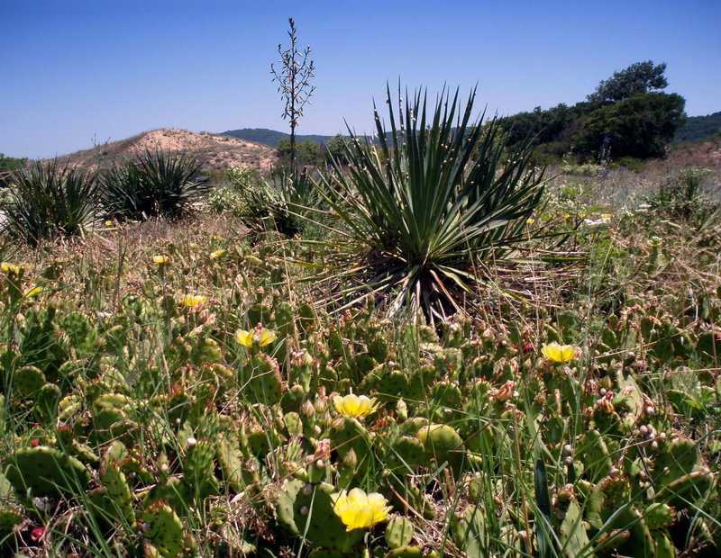 cactus